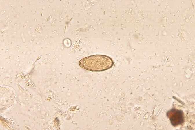 Clonorchis sinensis egg. Parasite.